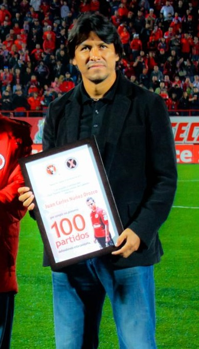 Former Mexican footballer Claudio Suarez